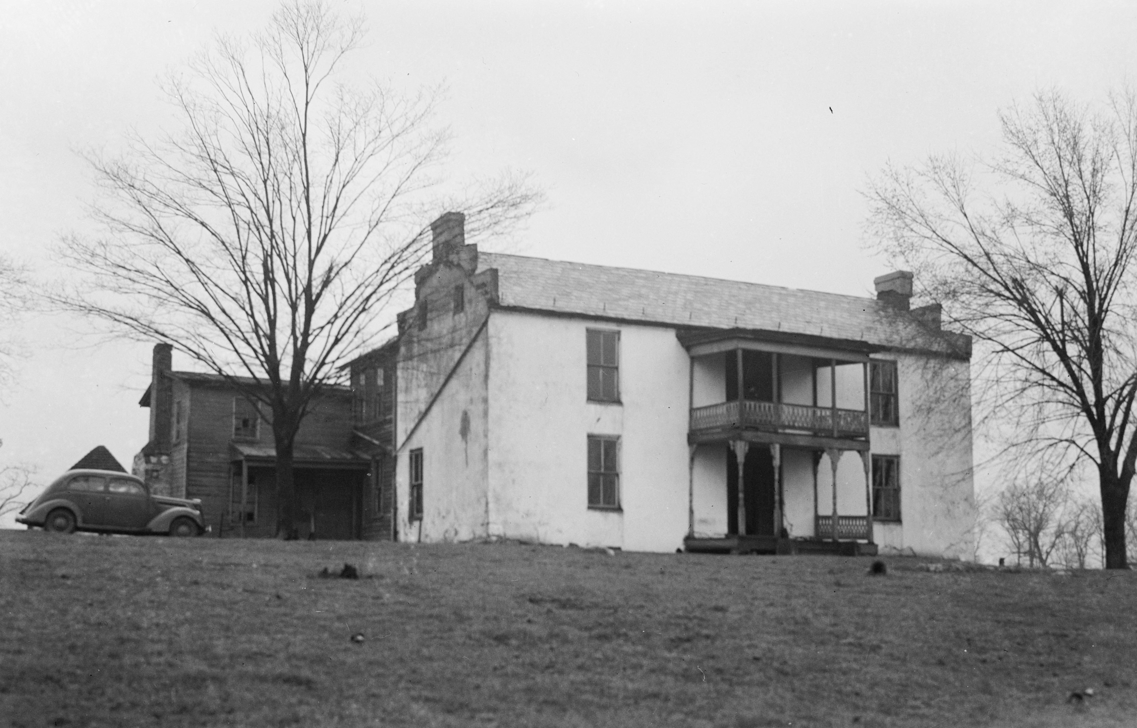 Front of the house at Gap View Farm, located along WV 9 between Charles Town and Shenandoah Junction in Jefferson County, West Virginia, United States. Built in 1774, it was the home of Frank Buckles, the last living American veteran of World War I. The farm complex is listed as a historic district on the National Register of Historic Places.